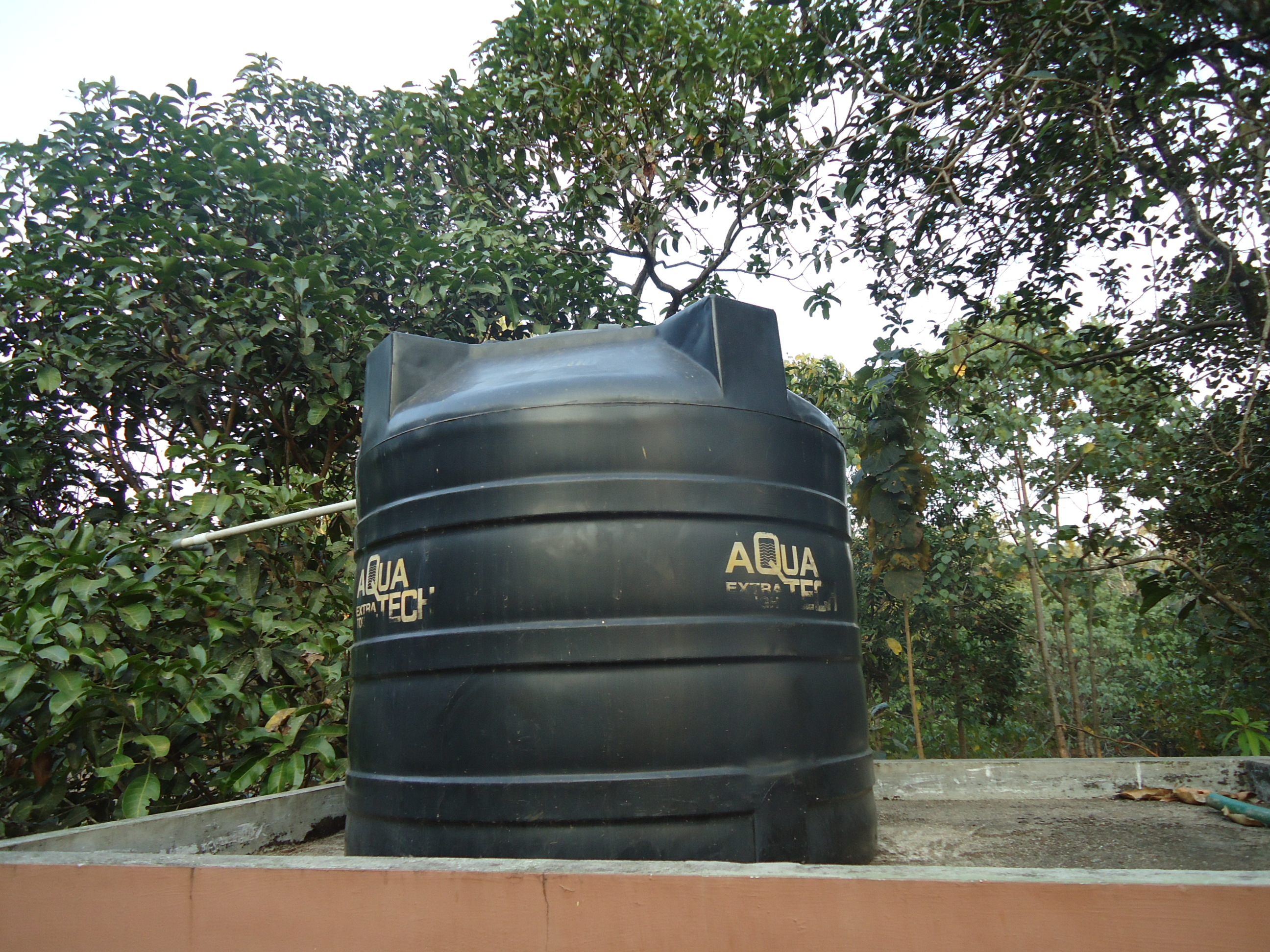 A Normal water tank made with plastic used in Ordinary Kerala House to store water.